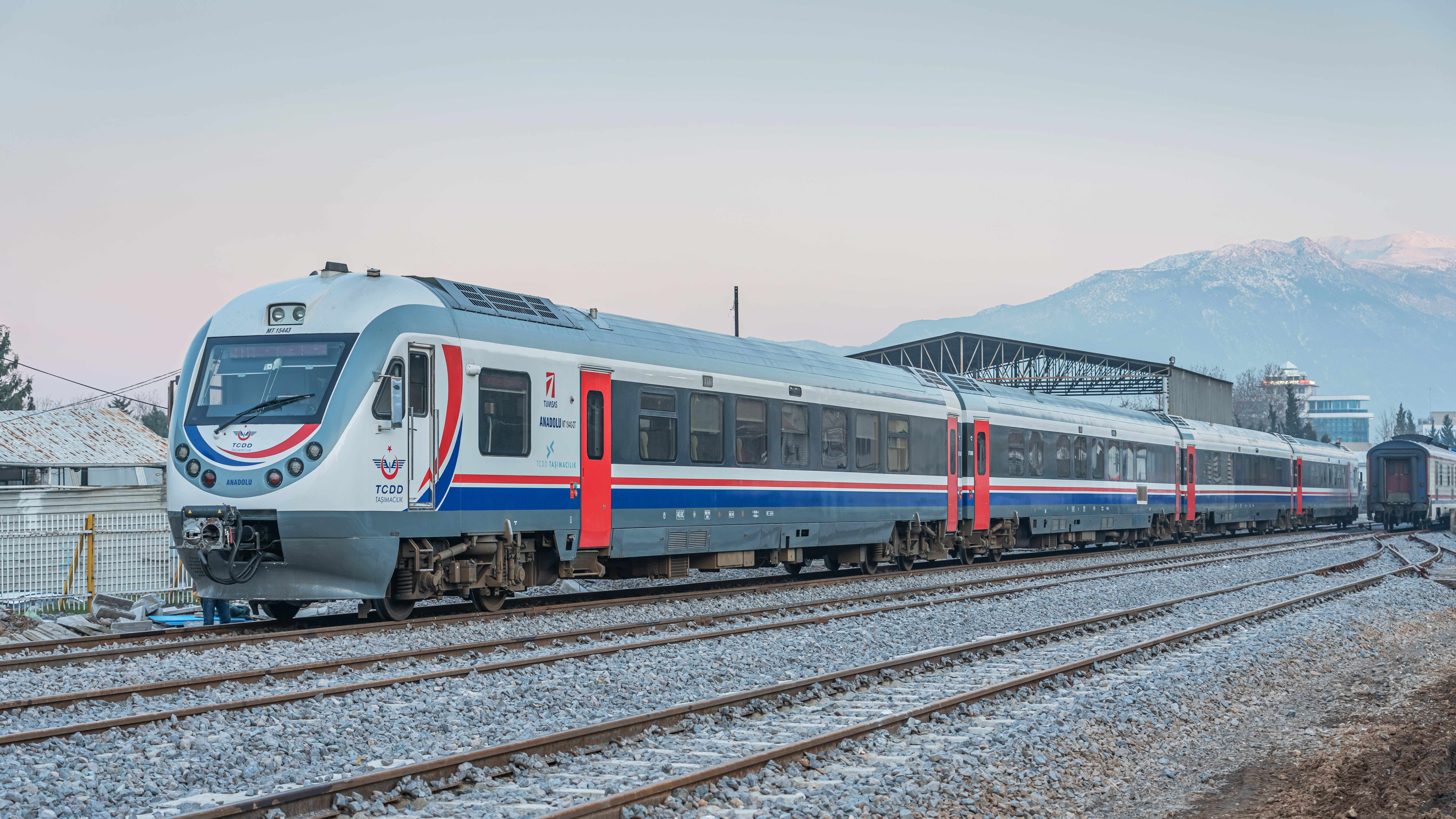 Passenger train at the railway station in Denizli, Turkey